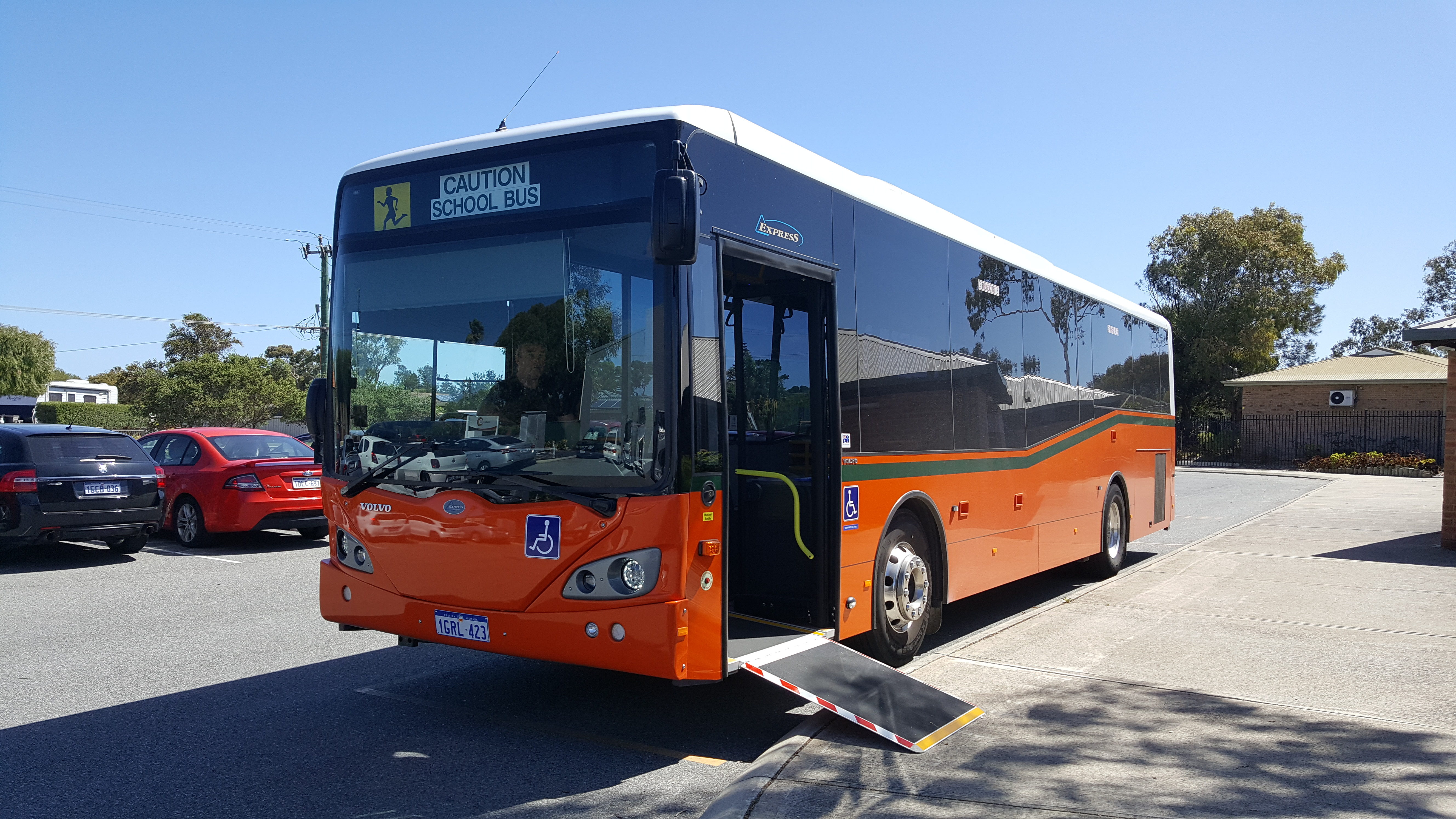 An Express Coach Builders-bodied Volvo B8RLE, registered as 1GRL423; seen parked at Malibu School in Safety Bay.